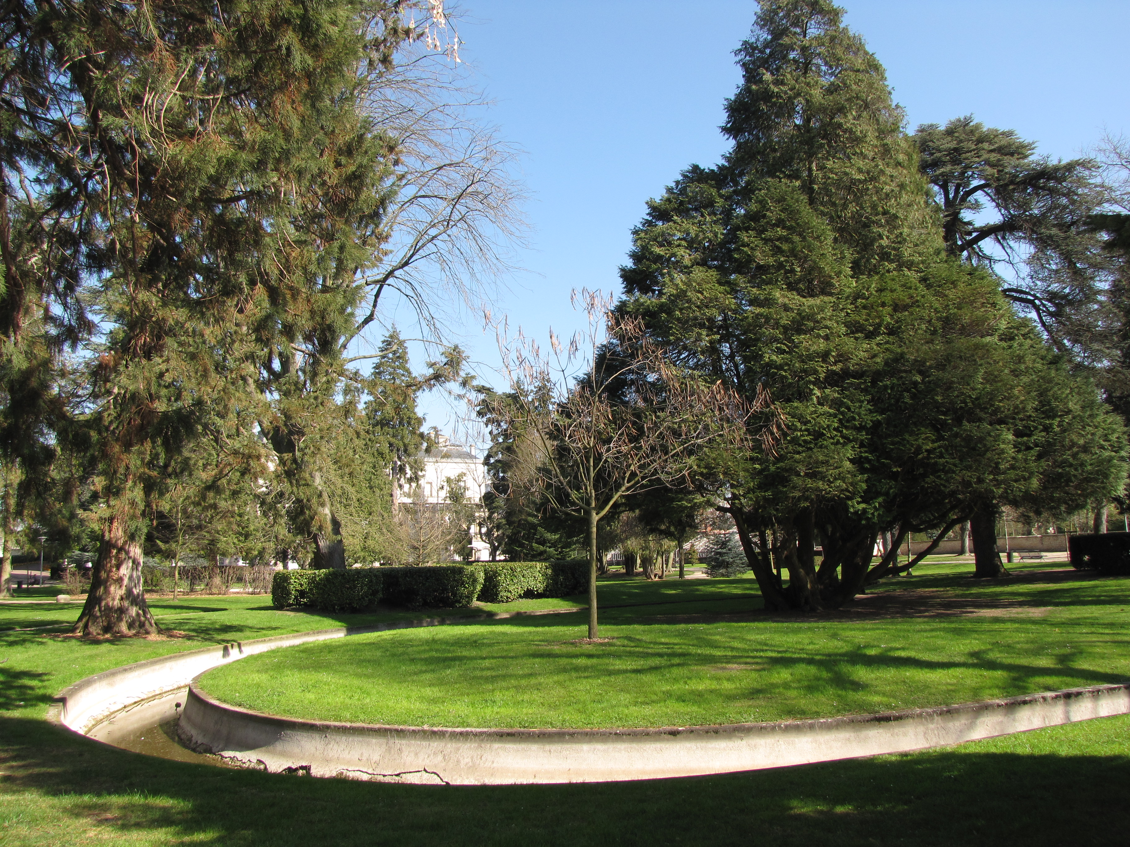 Montargis, Loiret, région Centre, France. The Durzy garden, at the back of the musée Girodet (crossroad Boulevard Durzy and rue du Loing).